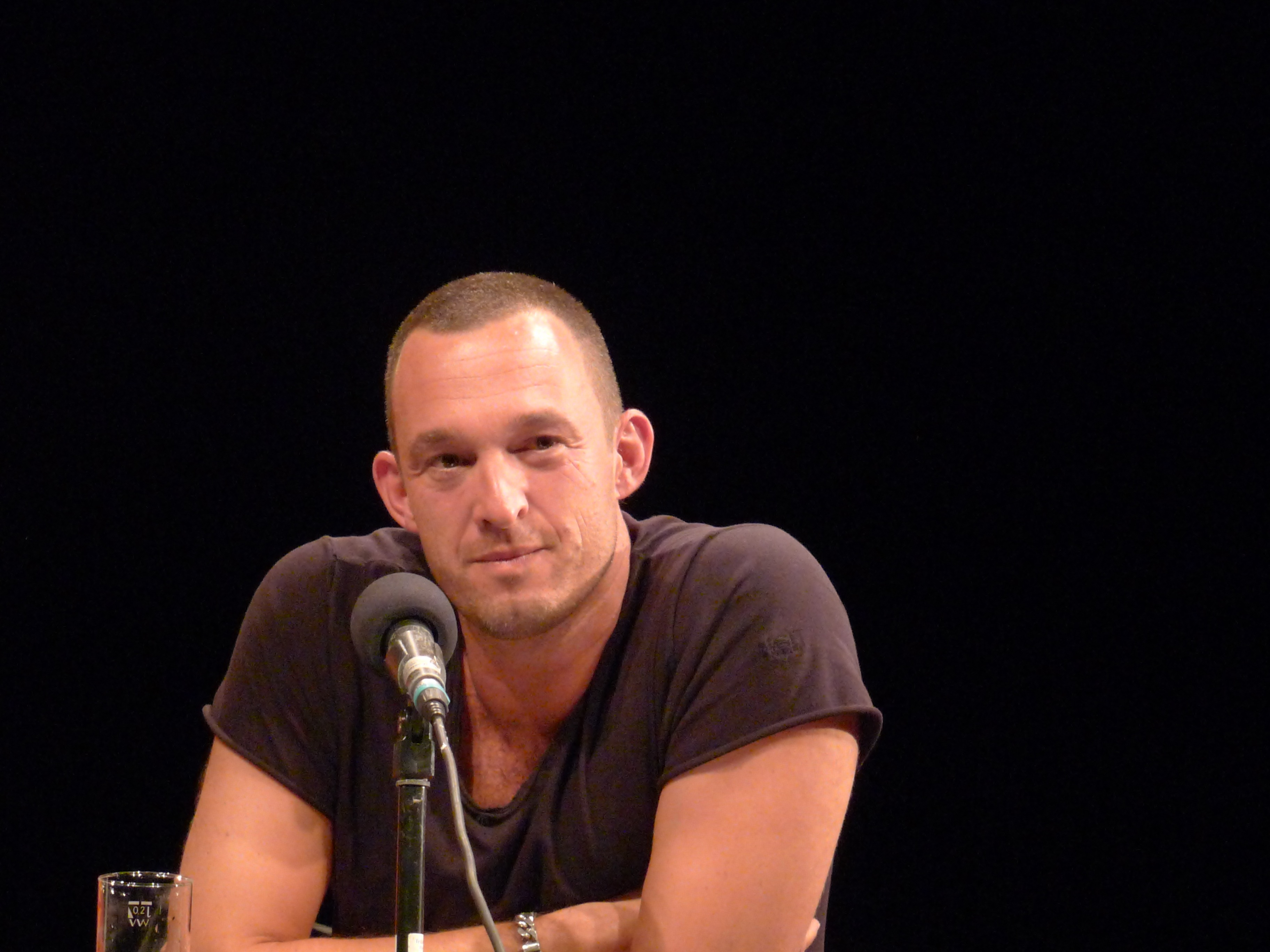 German writer Albert Ostermaier at the Erlangen writers festival 2011